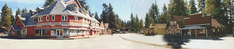 from the digital collection of Mike Manning